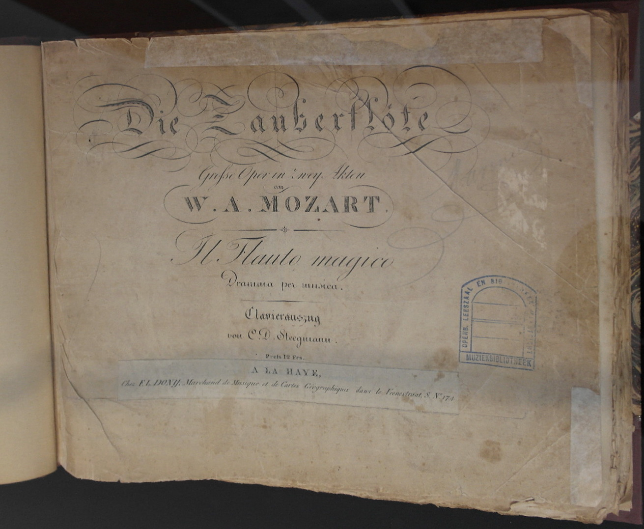 Mozart's piano edition of The Magic Flute, 1st edition (Bonn, 1793). Book collection of Centre Céramique, Maastricht, the Netherlands.